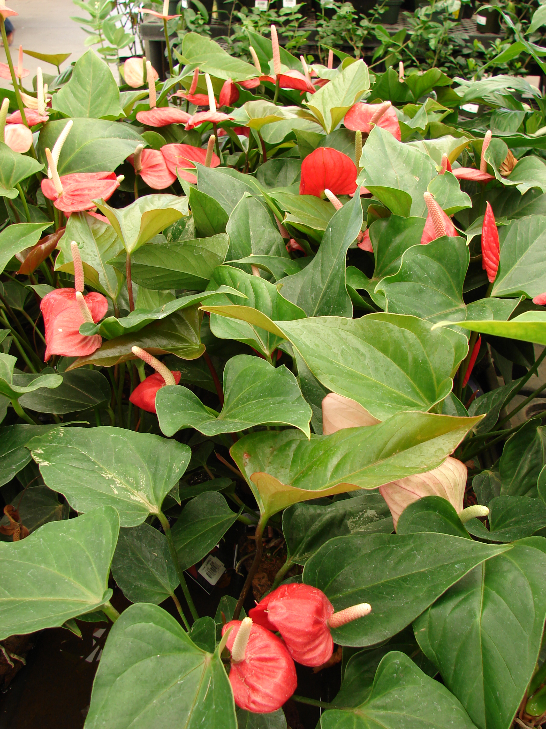 Anthurium andraeanum (flowering habit). Location: Maui, Walmart Kahului